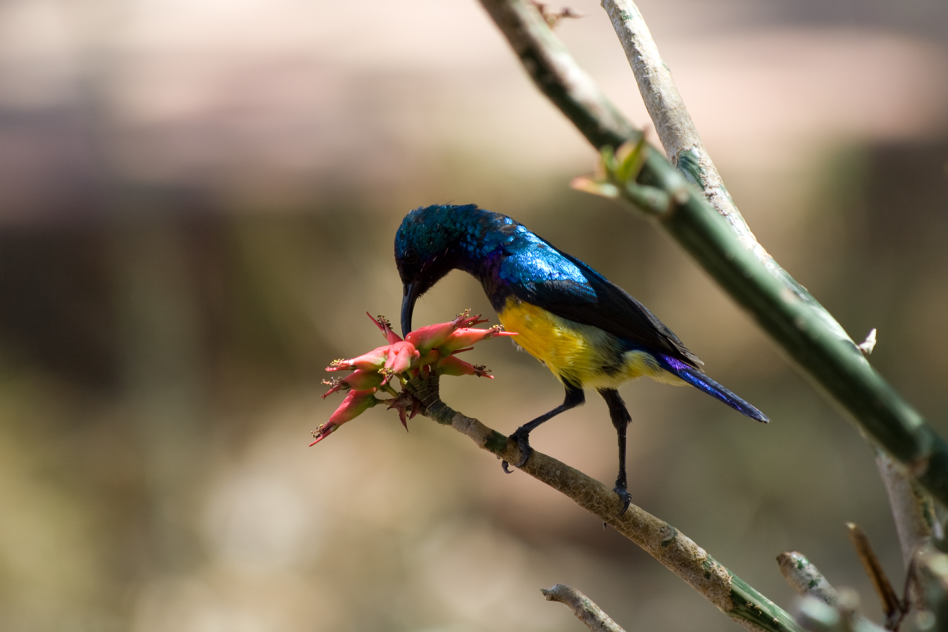 Variable Sunbird, Cinnyris venustus in Tanzania